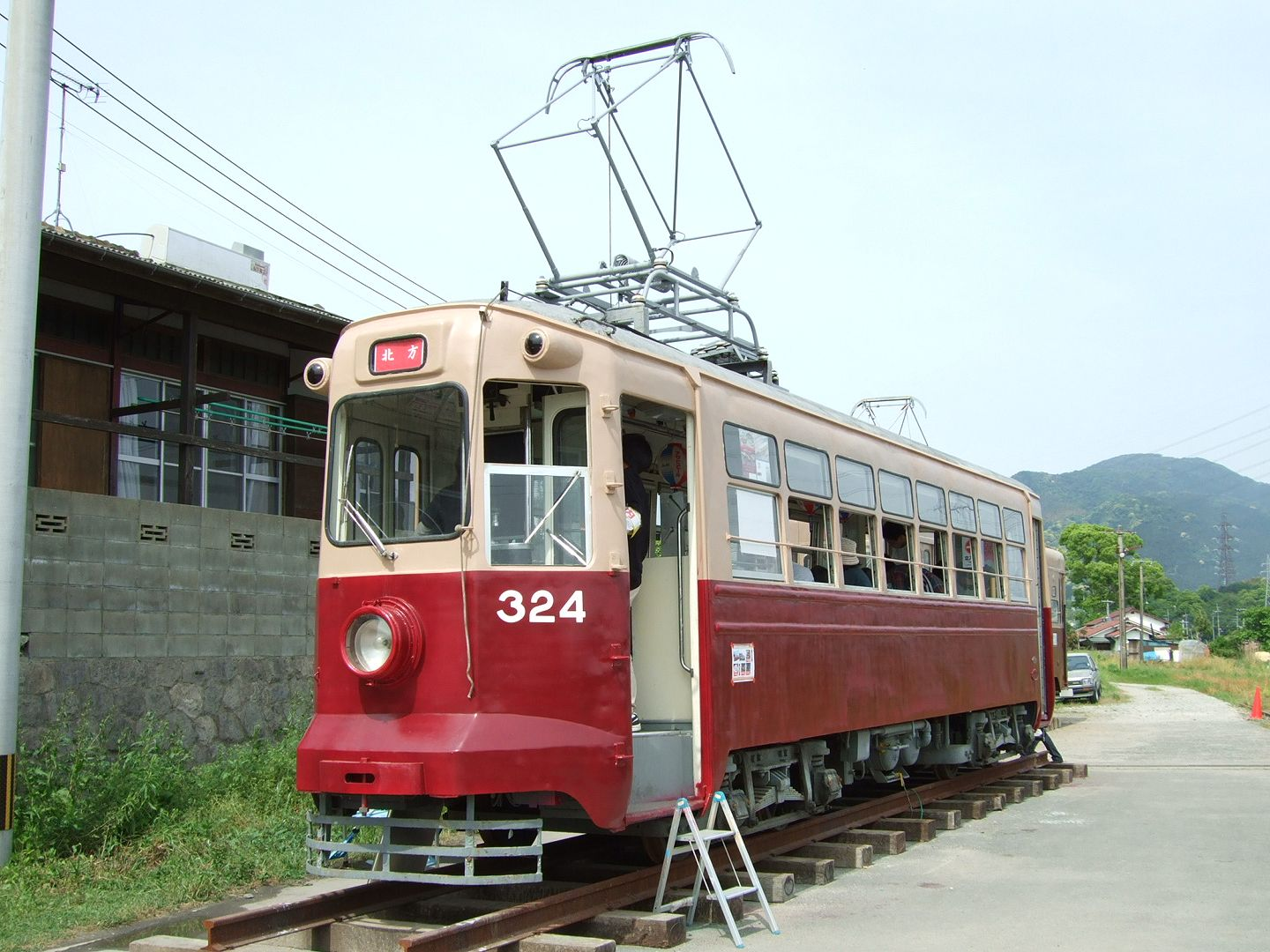 Nishi Nippon Railroad tram Type323 No.324